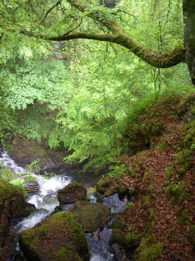 Birks of Aberfeldy: ...like in the poem.